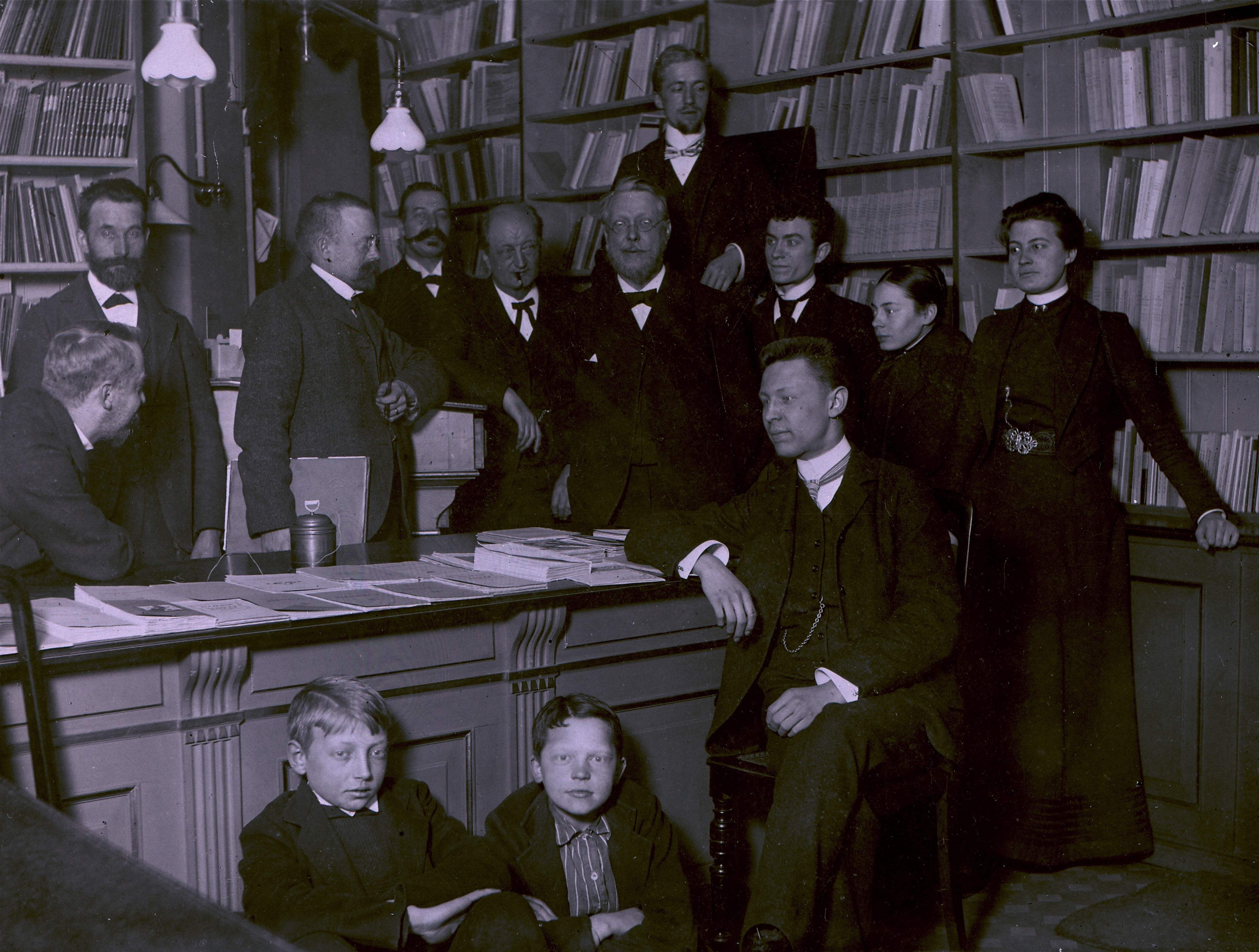 Publisher Haase & Sons Forlag, Denmark. Unknown year.